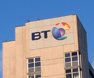 Picture taken by Lukacs in England. The building contains a logo of a commercial organization which owns the copyright og that logo. The author believe that the whole picture, including the building and the attached logo, qualifies the criteria of fair use for publist interests.